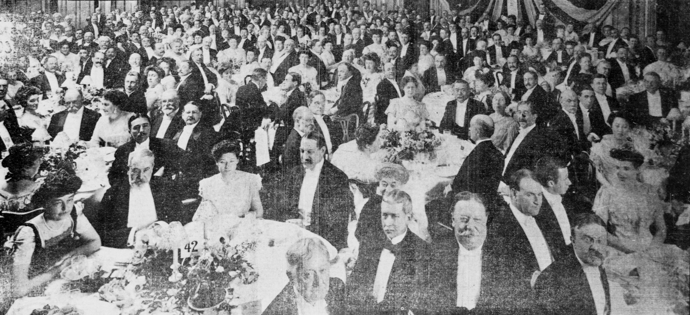 Dinner at the Hotel Astor in New York, hosted by the Peace Society in honor of U.S. Secretary of State and senator-elect Elihu Root. U.S. President William Howard Taft is at the lower right, with Root to his immediate left, and Ambassador Joseph Hodges Choate to the lower left of Root.